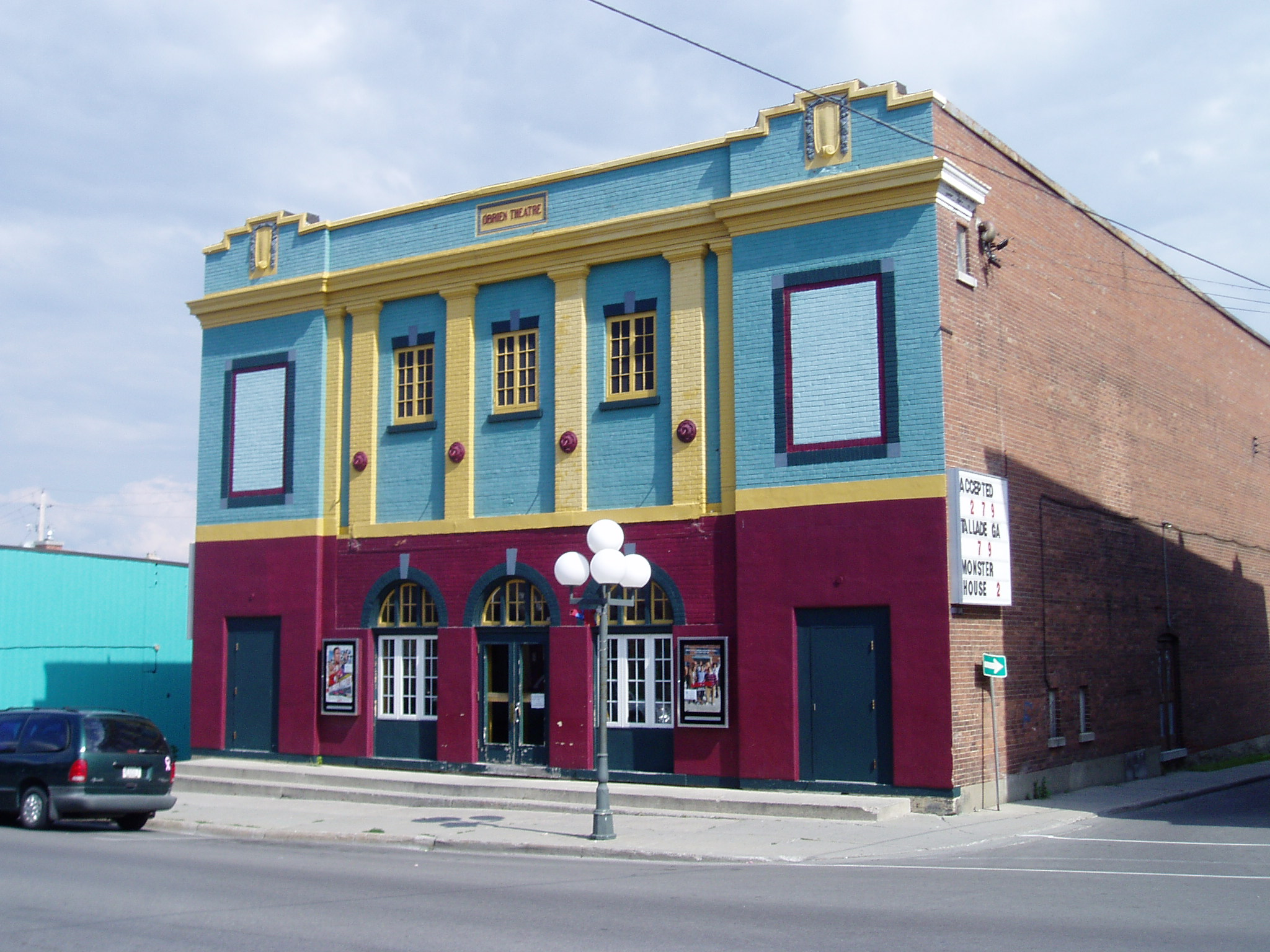 The current historic O'Brien Theatre in Arnprior, Ontario, Canada, dates to 1919. Taken by SimonP